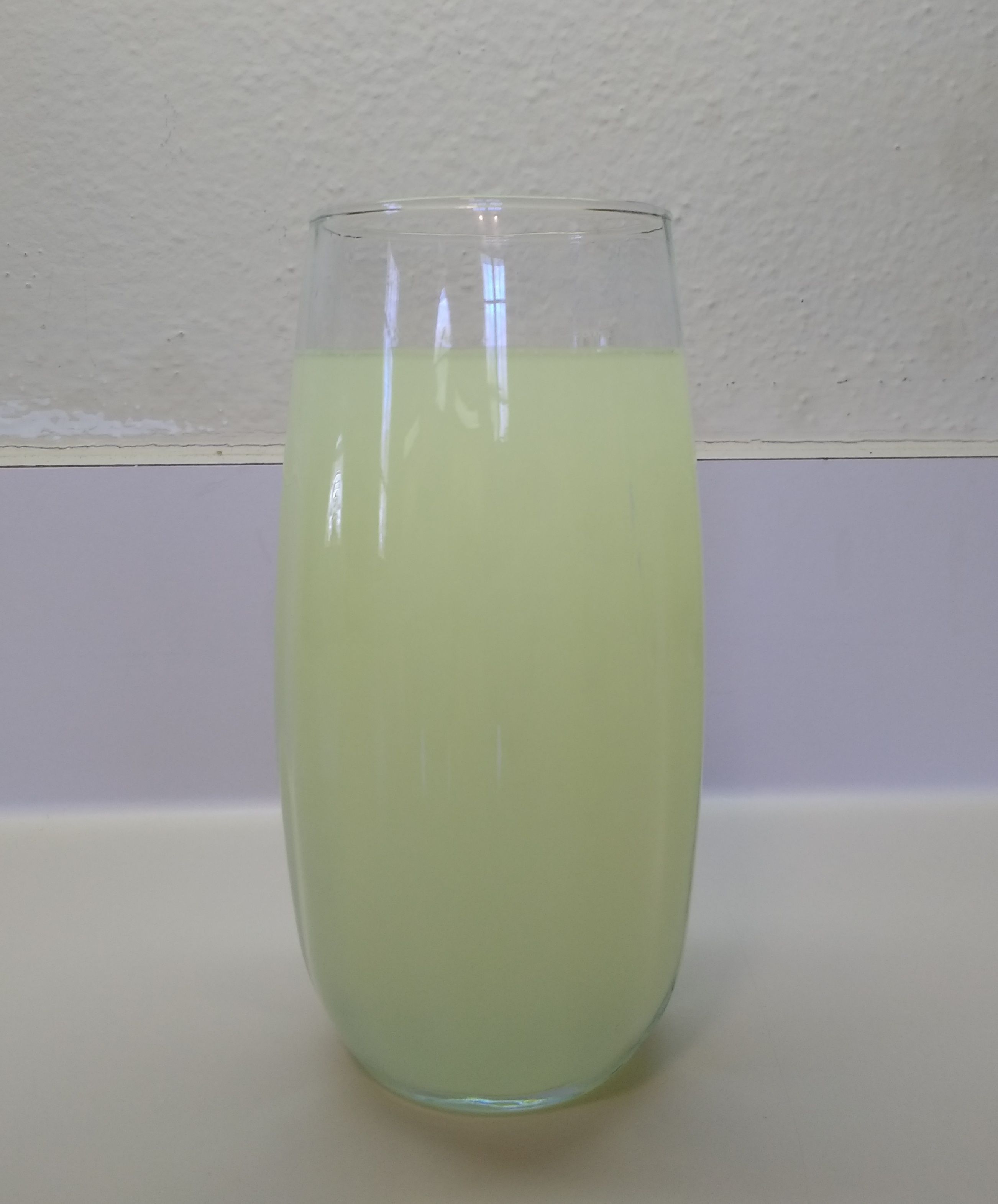 A glass of lemonade made from one packet of Crystal Light lemonade drink mix and two cups of water.